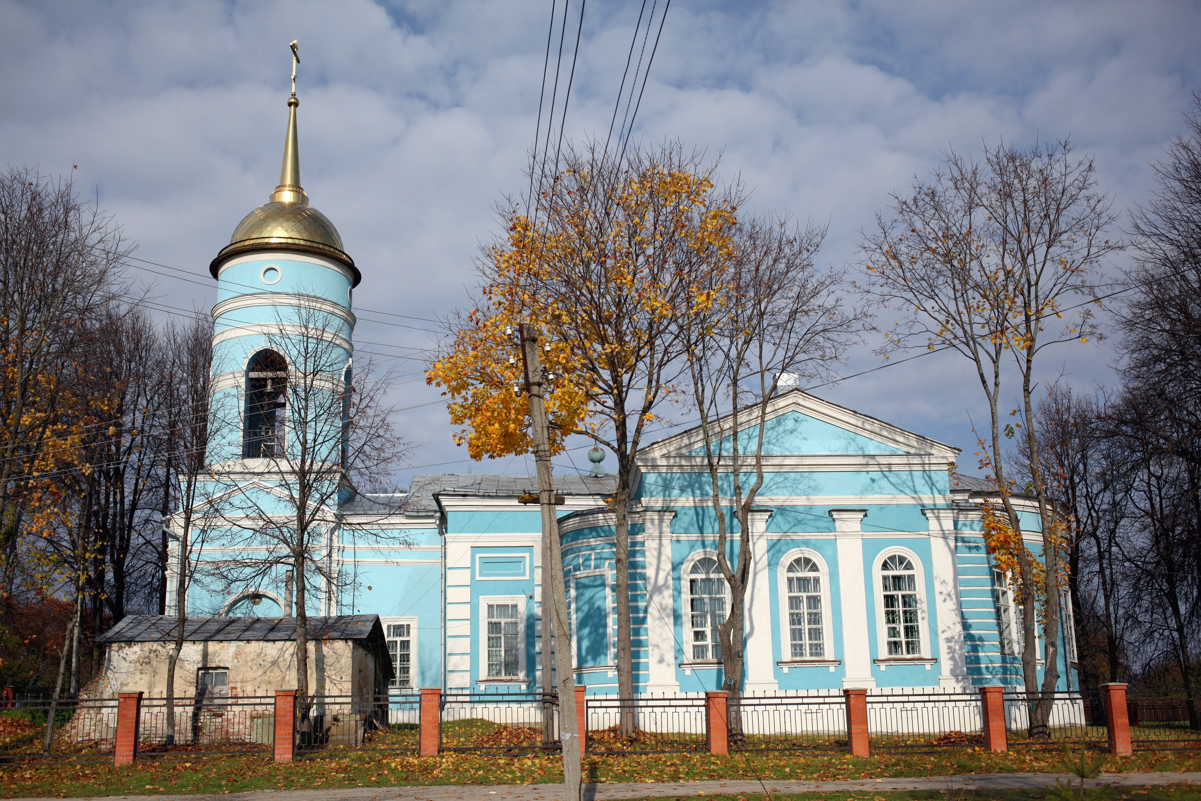 Church of the Theotokos of Kazan in Medyn